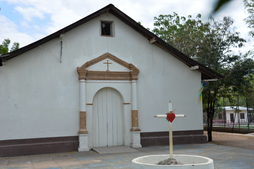 La iglesia en Santa Rosa del Peñón, Nicaragua.